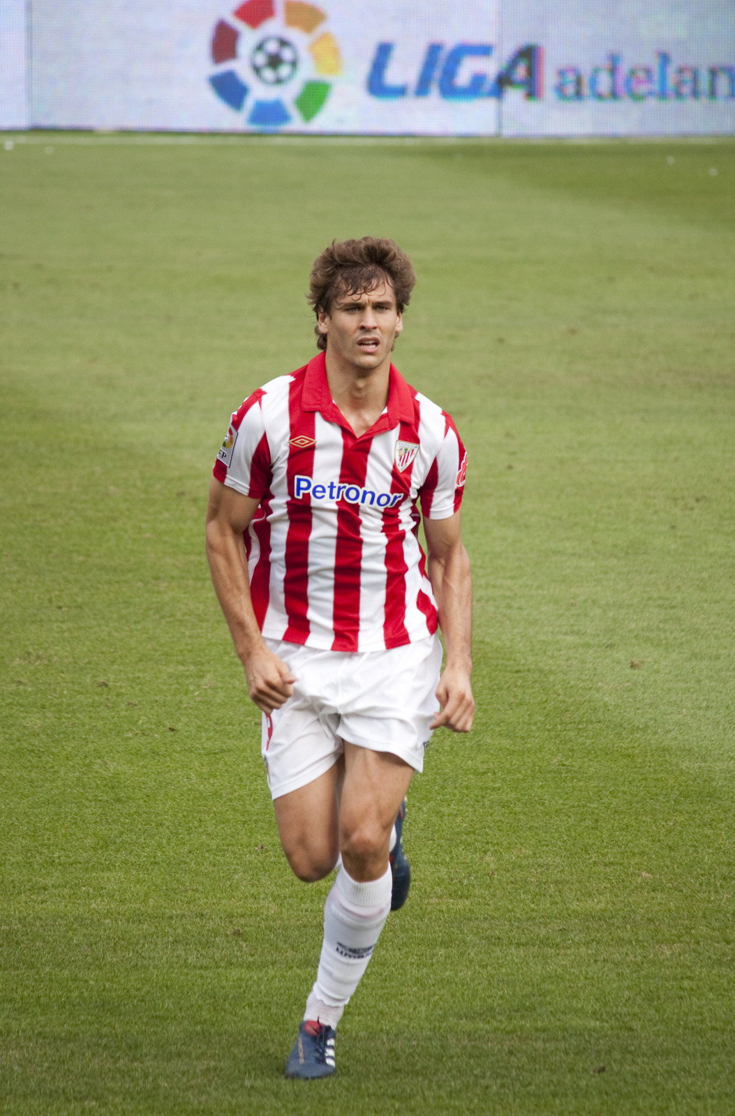 Fernando Llorente during the game, Hércules-Athletic Bilbao held at the José Rico Pérez Stadium, corresponding to the Round 1 a league of the season 2010/11.